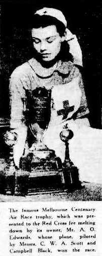 Here published in the Sydney Morning Herald Friday 24 January 1941. The famous Melbourne Centenary Air Race trophy, which was pre- sented to the Red Cross for melting down by its owner, Mr. A. O. Edwards, whose plane, piloted by Messrs. C. W. A. Scott and Campbell Black, won the race.